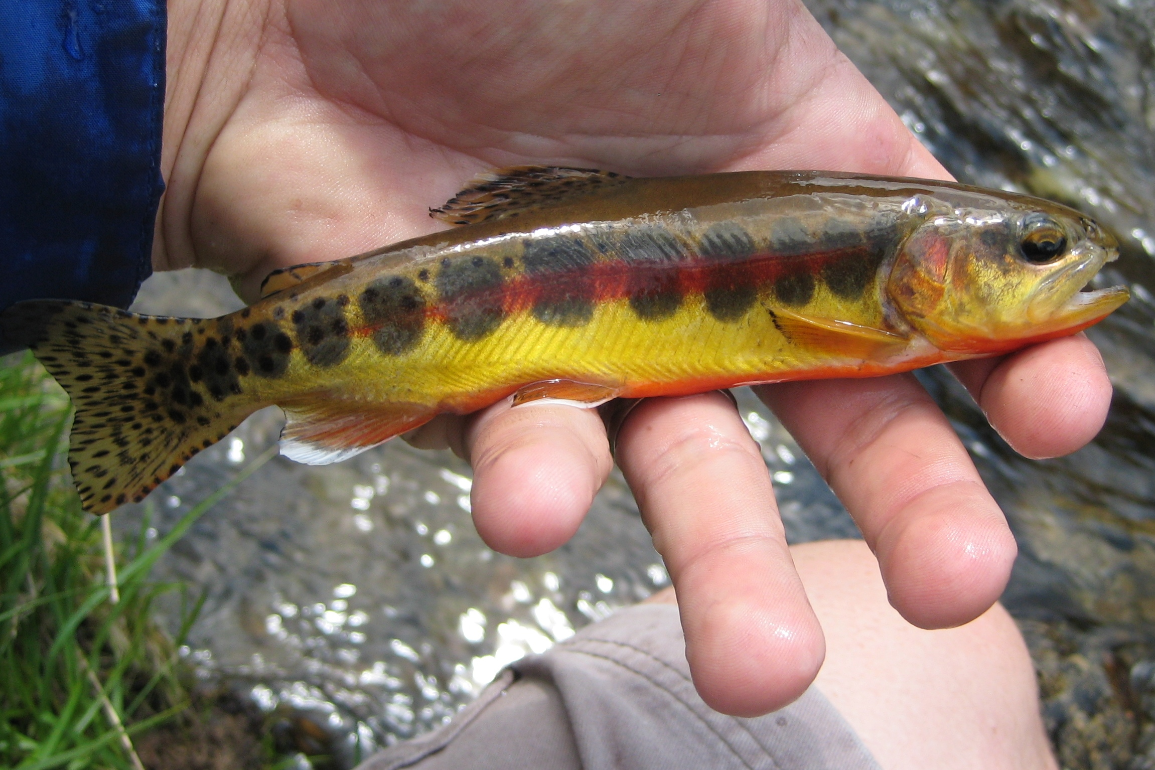 This picture is of a Golden Trout from French Creek in the French Canyon. Located within the John Muir Wilderness in California.